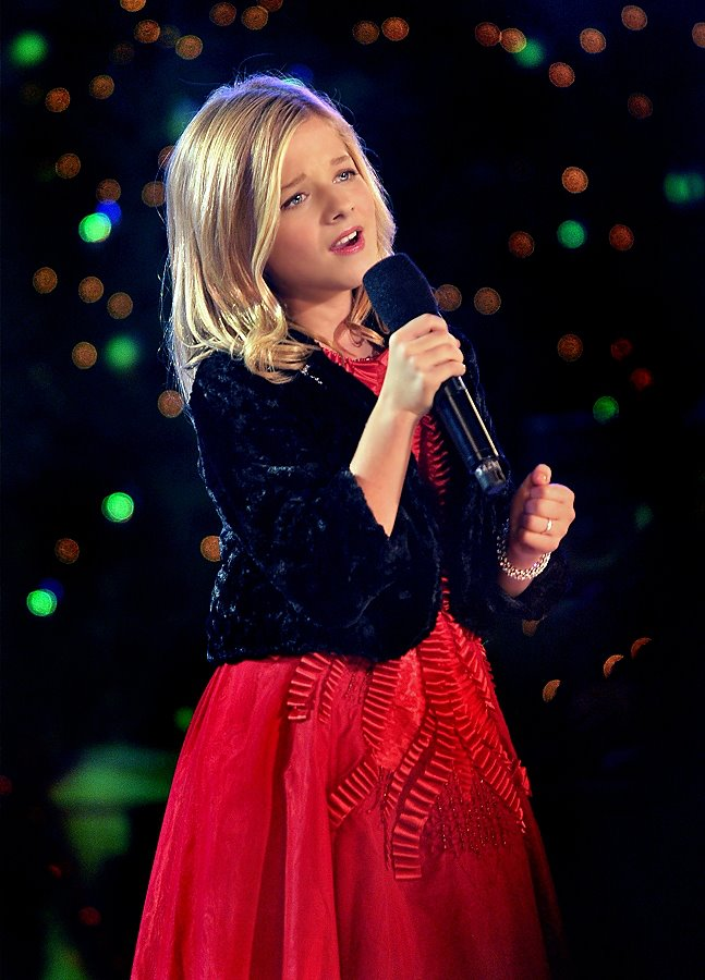 This is a photo of Jackie Evancho singing at the Christmas Tree lighting at The Grove on November 13, 2011. She is singing the song "Believe".